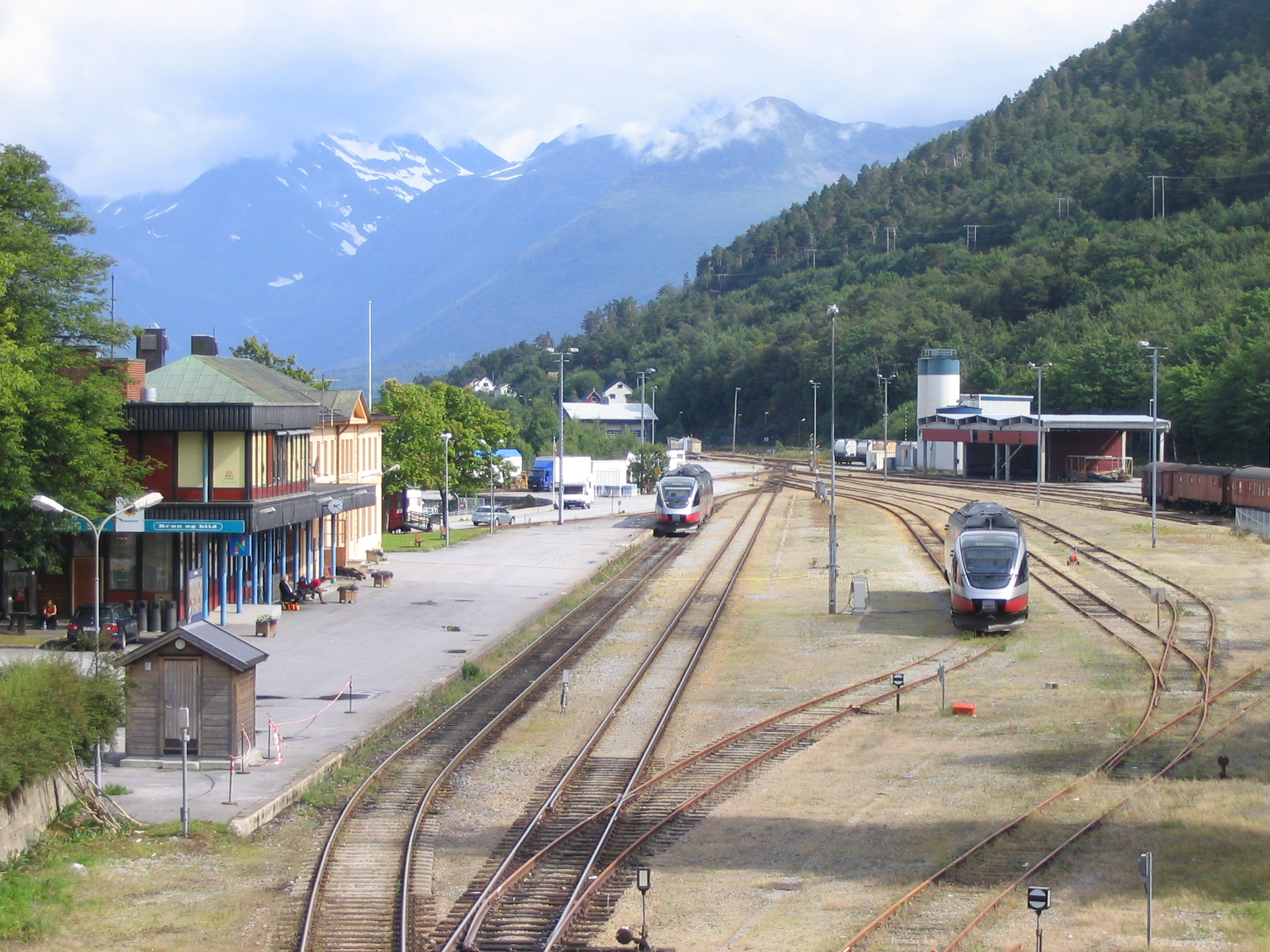 Local train at Aandalsnes station, Norway. Summer 2005.